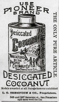 Display advertisement in Los Angeles Herald of April 25, 1890, showing tin of "Desiccated Cocoanut Manufactured by the Pacific Cocoanut Co. San Francisco Cal." with text of ad: USE PIONEER BRAND / THE ONLY PURE ARTICLE. / DESICCATED COCOANUT / Medals awarded at all Fairs wherever exhibited / L.G. Sresovich & Co., Proprietors, / 505 and 507 Sansome st., San Francisco / ap2-mon-wed-frs-1m. To be used in Coconut. Other information -- Captioned As { }